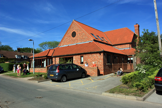 Wetwang Community Hall, Wetwang, East Riding of Yorkshire, England.This is looking across Southfield Well Balk.